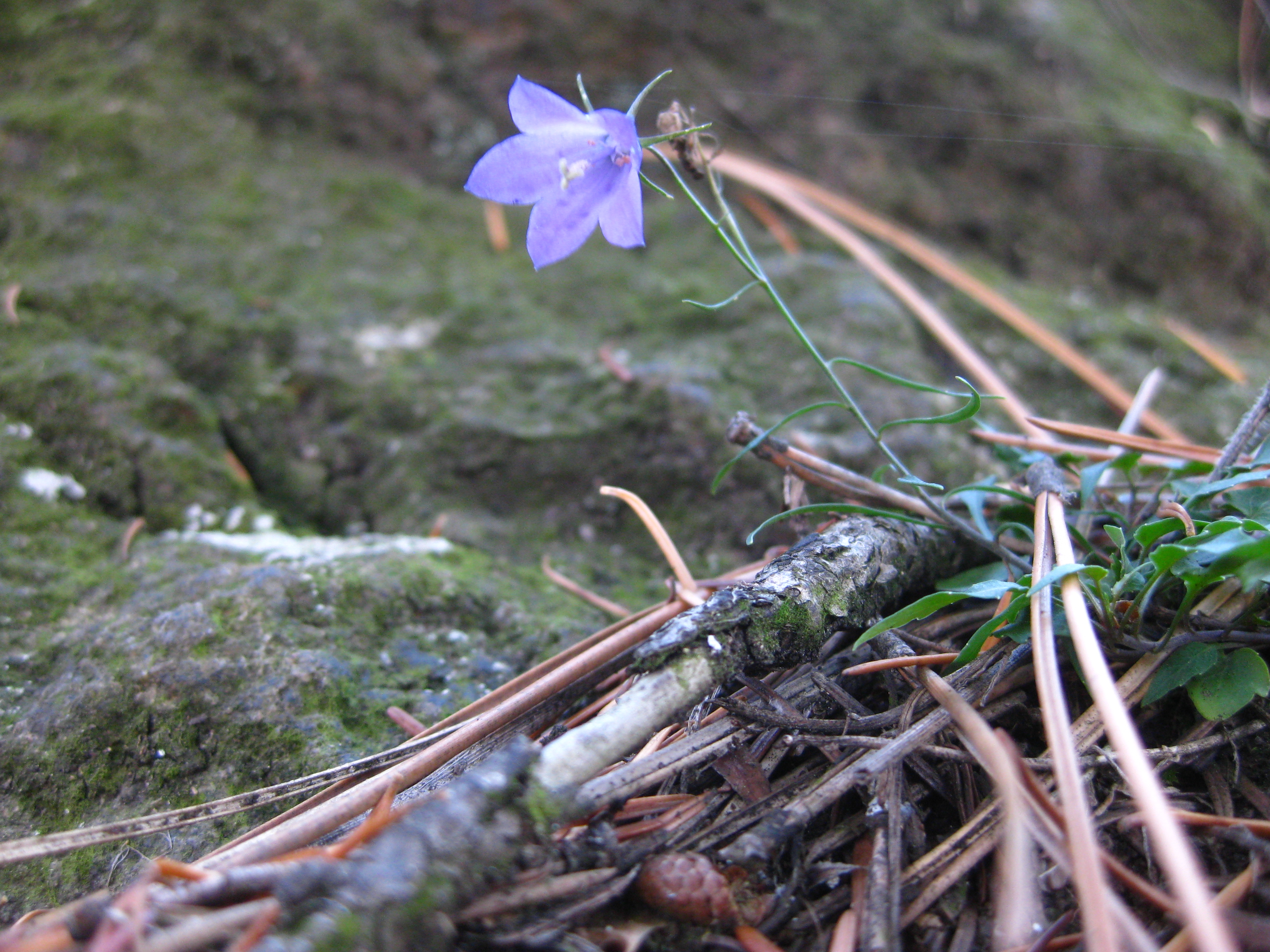 Natural monument Calvary in Motol in Prague, Czech Republic